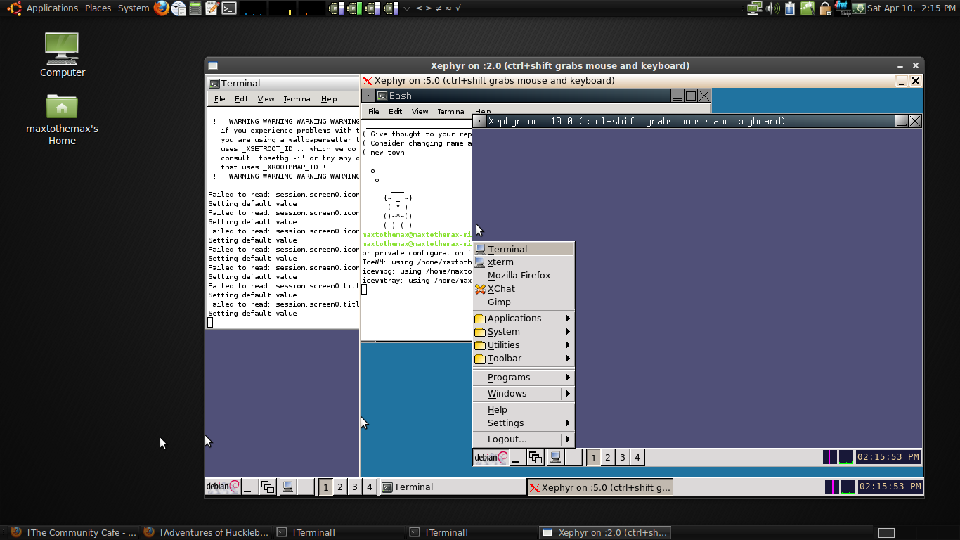 An IceWM/Xephyr session is running inside a Fluxbox/Xephyr session, which is running inside another IceWM/Xephyr session, which is running under Linux Mint 8. (Note that Fluxbox is also licensed under the MIT license by the Fluxbox developers, but IceWM is released under the GPL and LGPL by Marko Maček.)